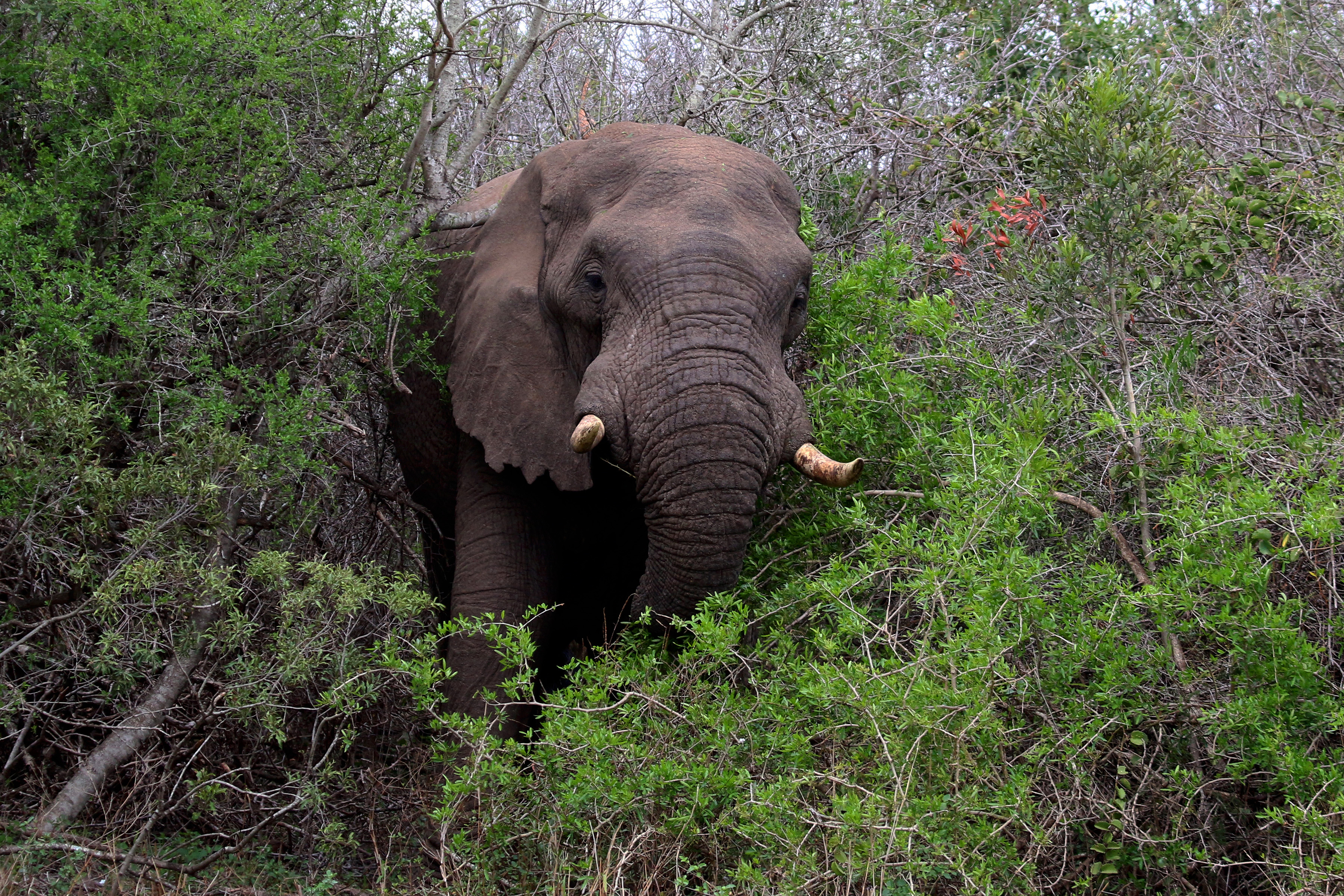 African elephant (Loxodonta Africana) in bush, Phinda Private Game Reserve, KwaZulu Natal, South Africa